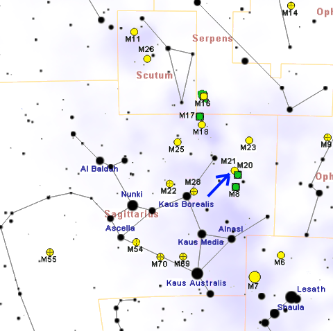 Map of M21